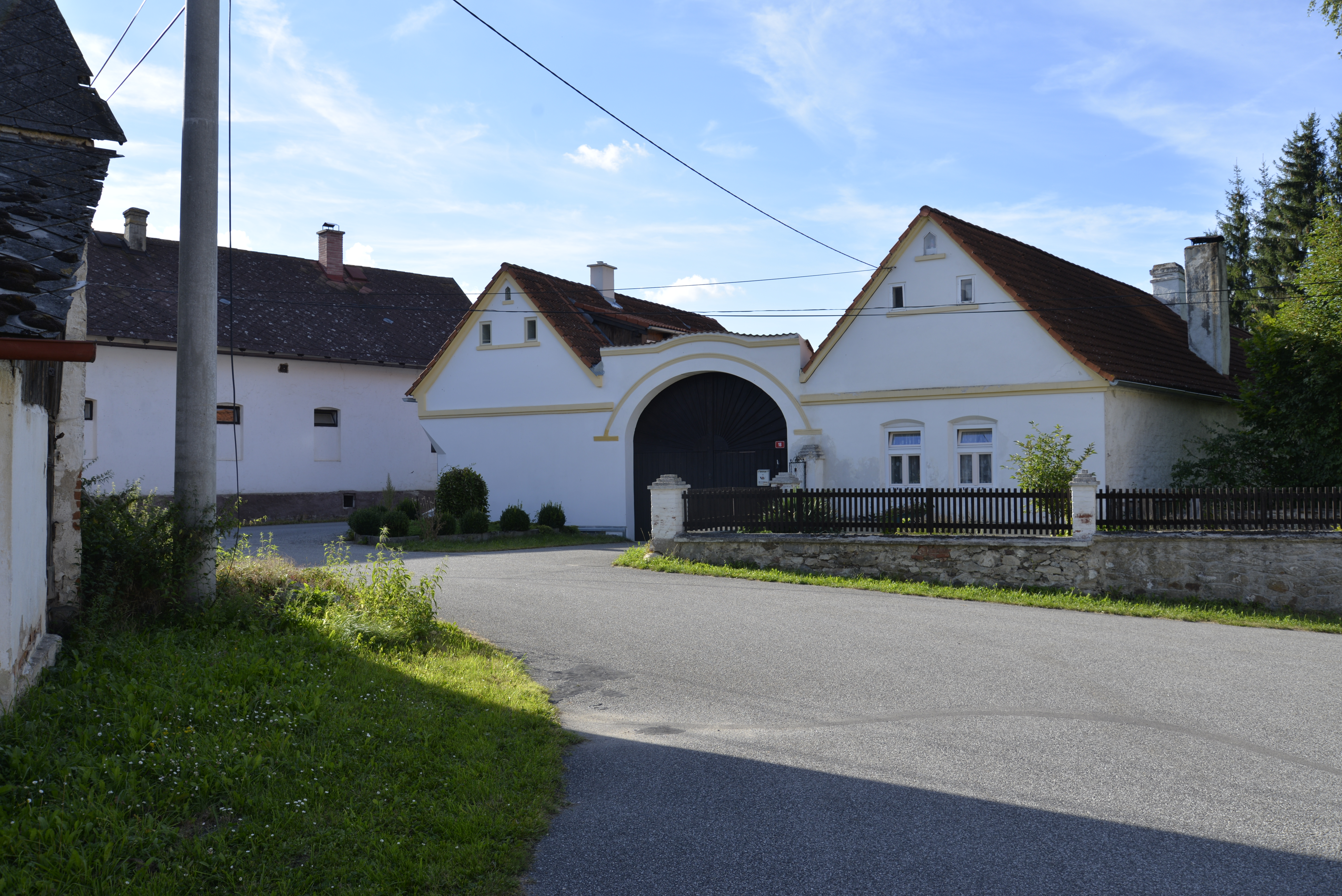 Bojanovice - small village, part of Rabí in Klatovy District.